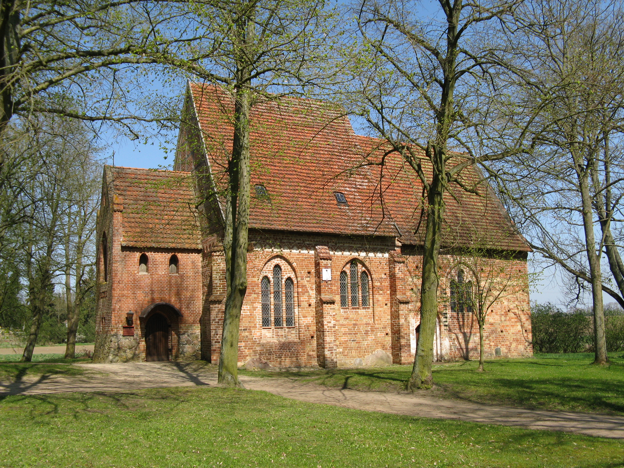 Church in Demen, disctrict Parchim, Mecklenburg-Vorpommern, Germany